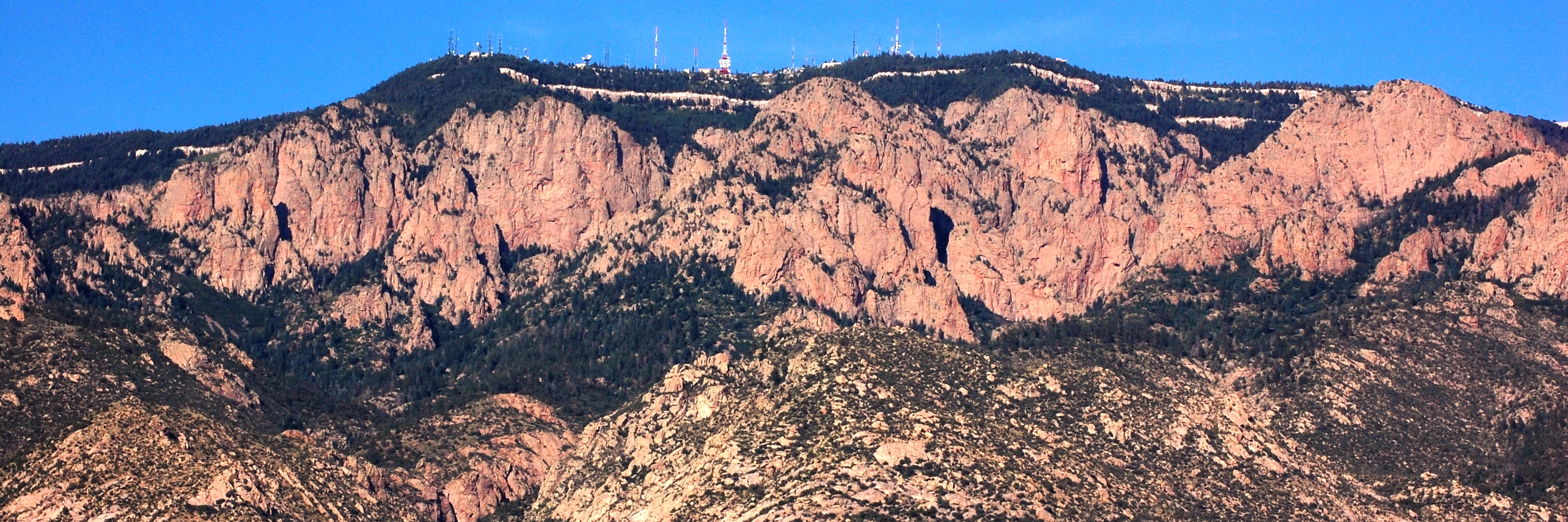 Picture of Sandia Crest taken from near Elena and Eubank (see map). Taken with 55-200 mm f/4-5.6G ED AF-S DX Zoom-Nikkor Lens. Brightness corrected +21 with Nikon Picture Project.